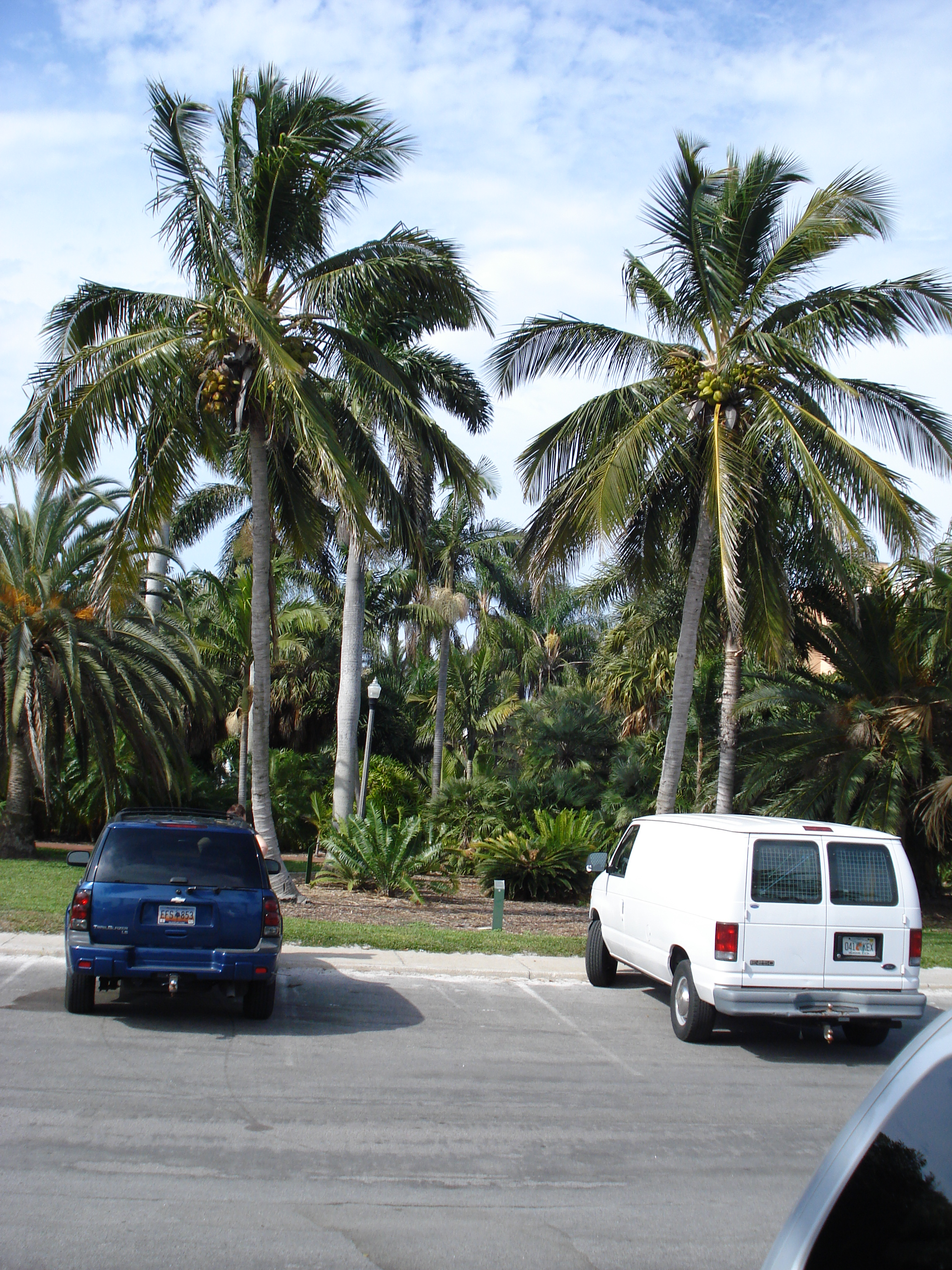 Jamaican tall Coconut Palms at Gizella Kopsick Palm arboretum in St. Petersburg, Fl. Trees were donated to the park in 1978 by Paul Drummond and have stood up against many freezes and cold.